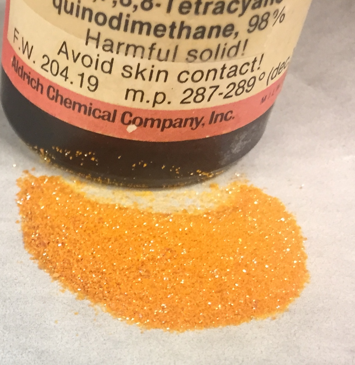 sample of tetracyanoquinodimethanide